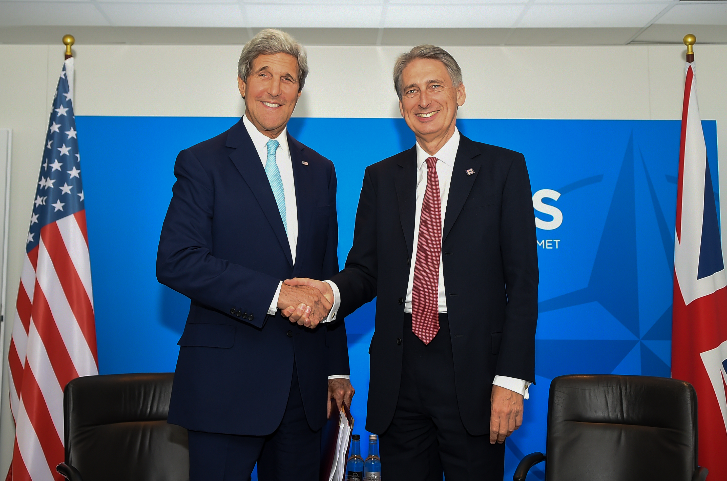 U.S. Secretary of State John Kerry shakes hands with British Foreign Secretary Philip Hammond before the two hold a bilateral meeting on September 5, 2014, on the sidelines of the NATO Summit in Newport, Wales, United Kingdom. [State Department photo/ Public Domain]